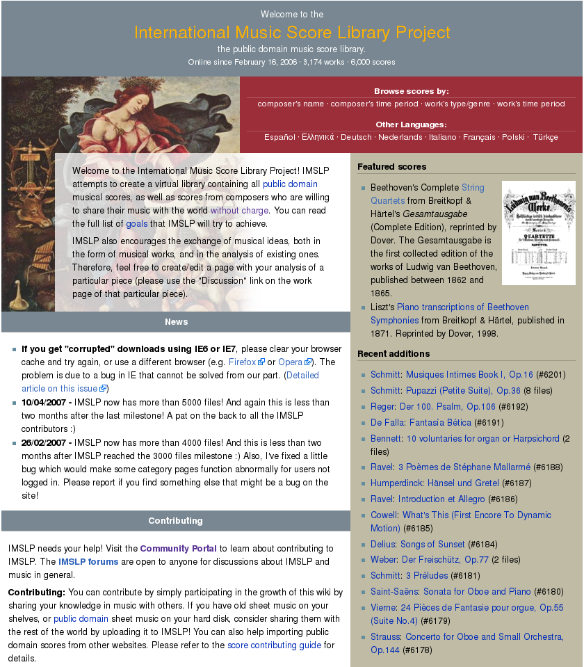 Screenshot of the IMSLP homepage which I have designed